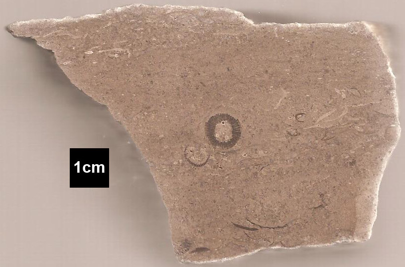 Etched section of hand sample of Devonian Columbus Limestone from quarry on Kelley's Island, Ohio. Circular feature is a crinoid columnal. Collected in 2000.